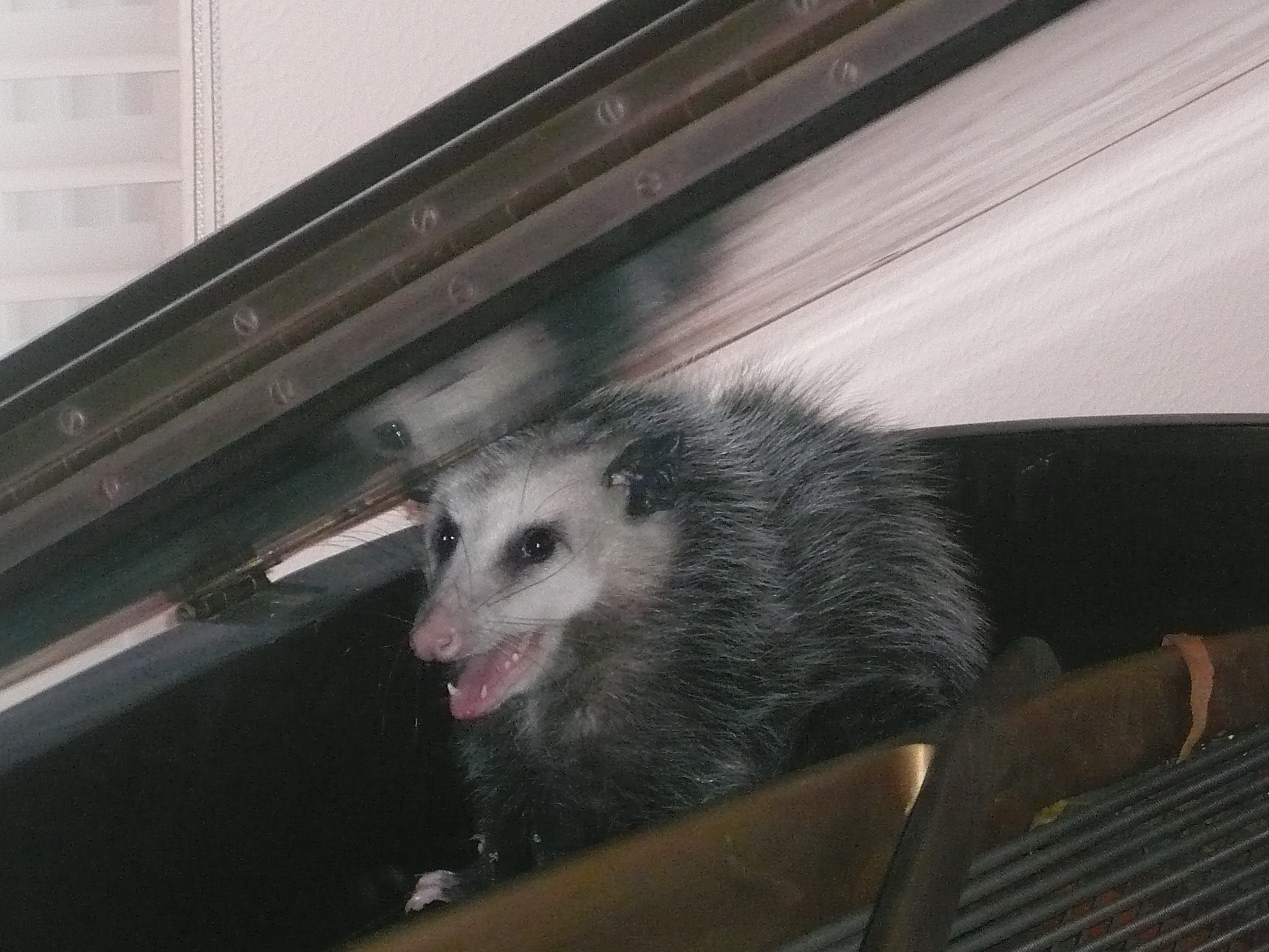 american(?) opossum in baby grand piano in houston texas